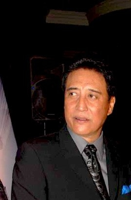 Danny at the audio release of Enthiran